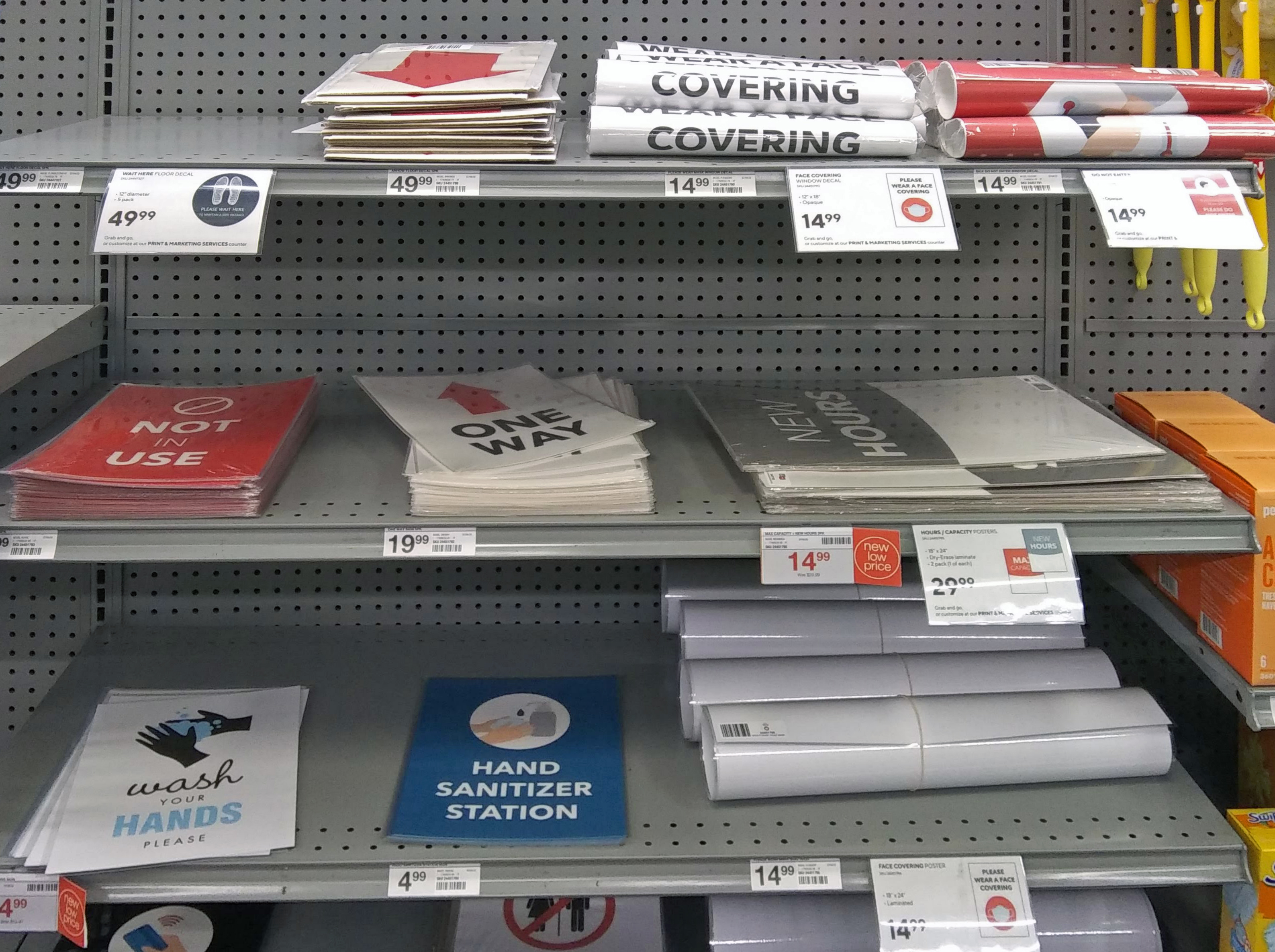 Pre-printed versions of signs commonly displayed by businesses during the COVID-19 pandemic for sale at a Staples outside Middletown, NY, USA